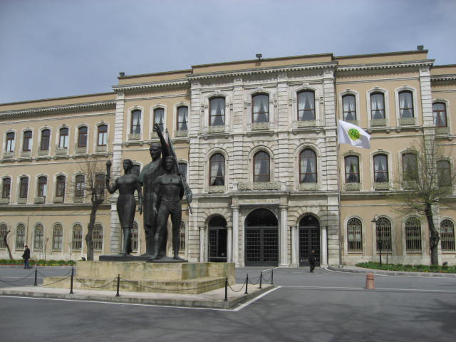 Istanbul University main building with statue of Atatürk